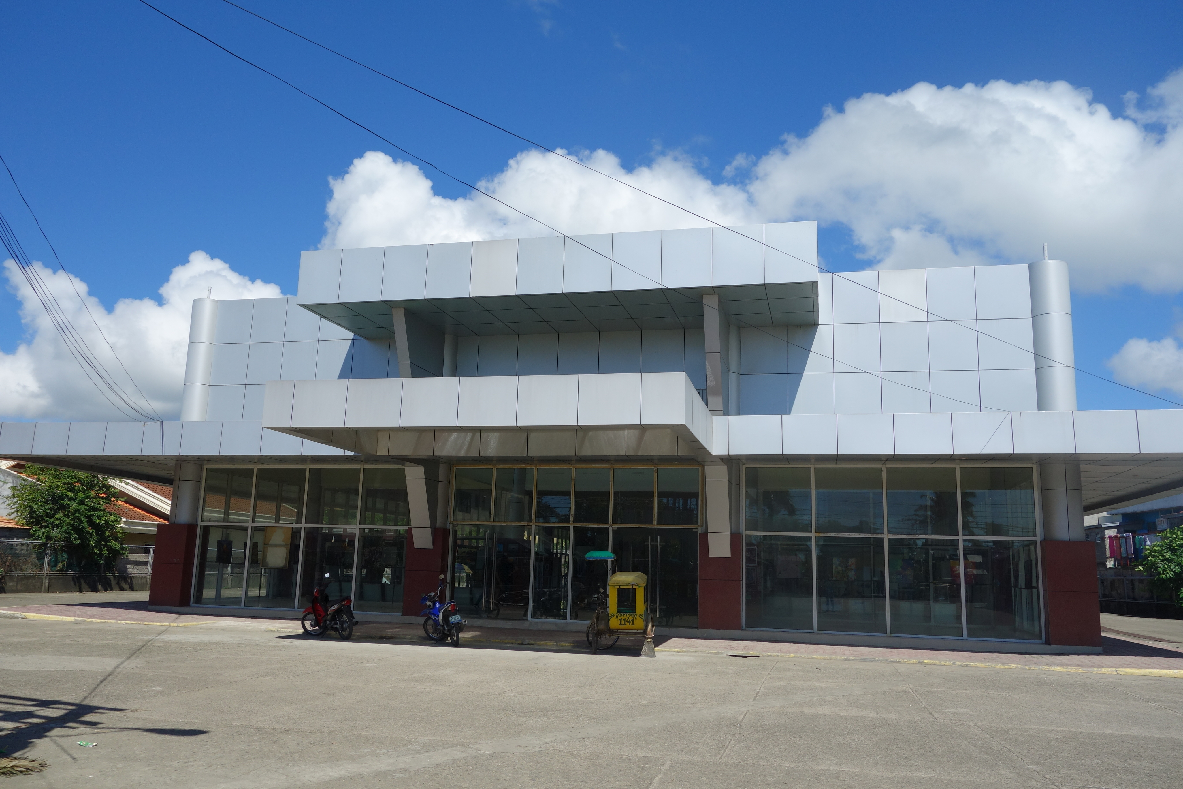 Calbayog City Convention Center taken during the first Waray Edit-a-thon